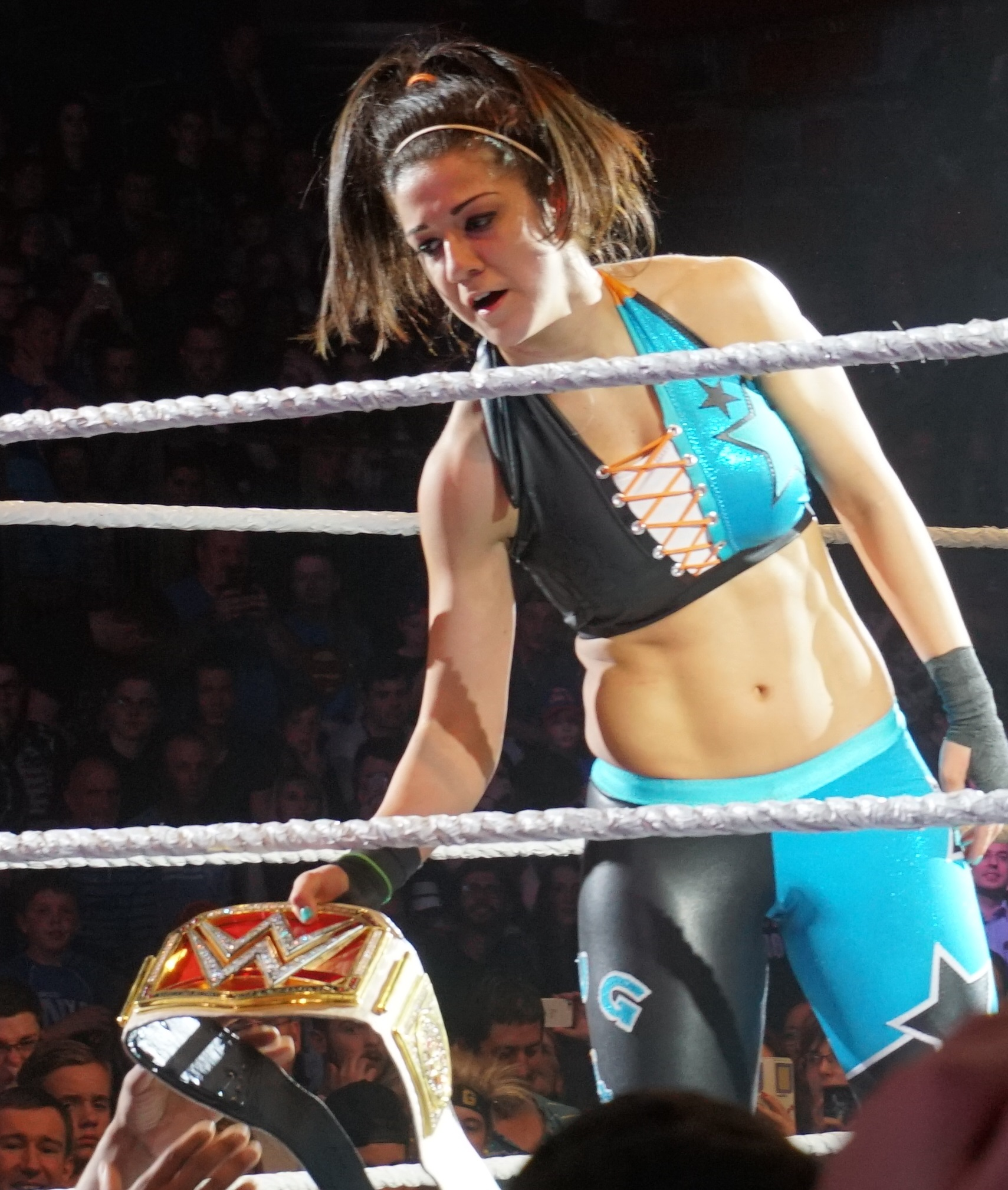 Bayley with the Raw Women's Championship